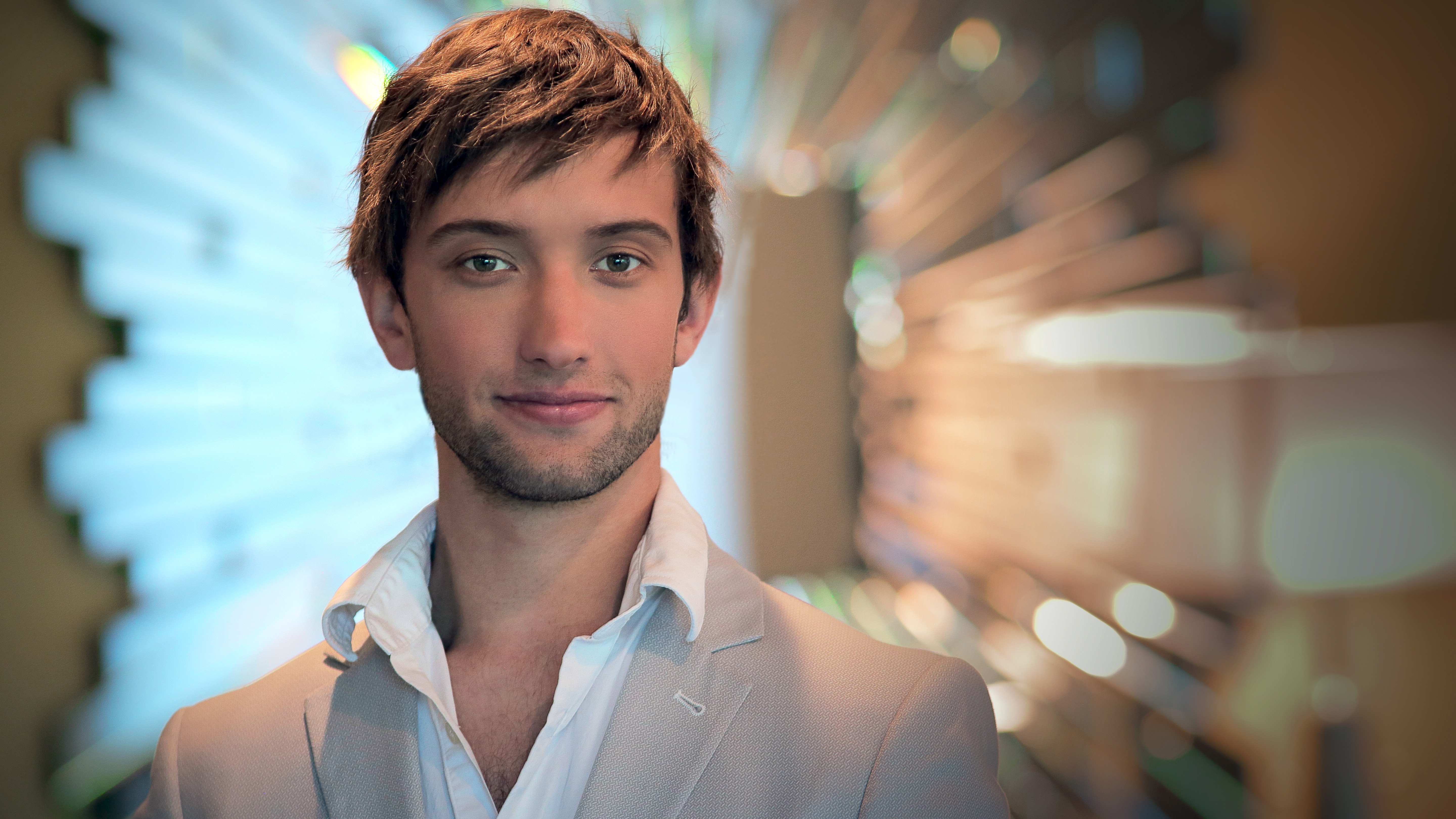 2014 Sean Babas